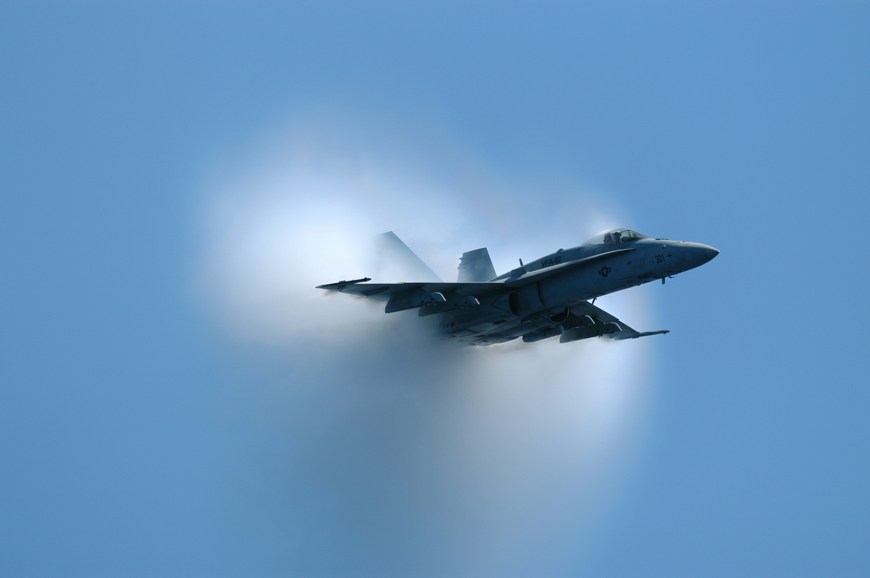 Atlantic Ocean - An F/A-18 Hornet, assigned to the “Marauders” from Strike Fighter Squadron Eight Two (VFA-82), piloted by Lt. Cmdr. James Montgomery, of Yukon, Okla., reaches the sound barrier during a supersonic flyby over USS Enterprise (CVN 65).e Plan (FRP).